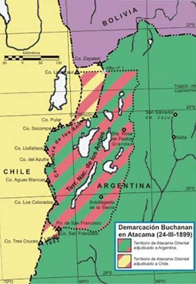 Line of Buchanan 1899